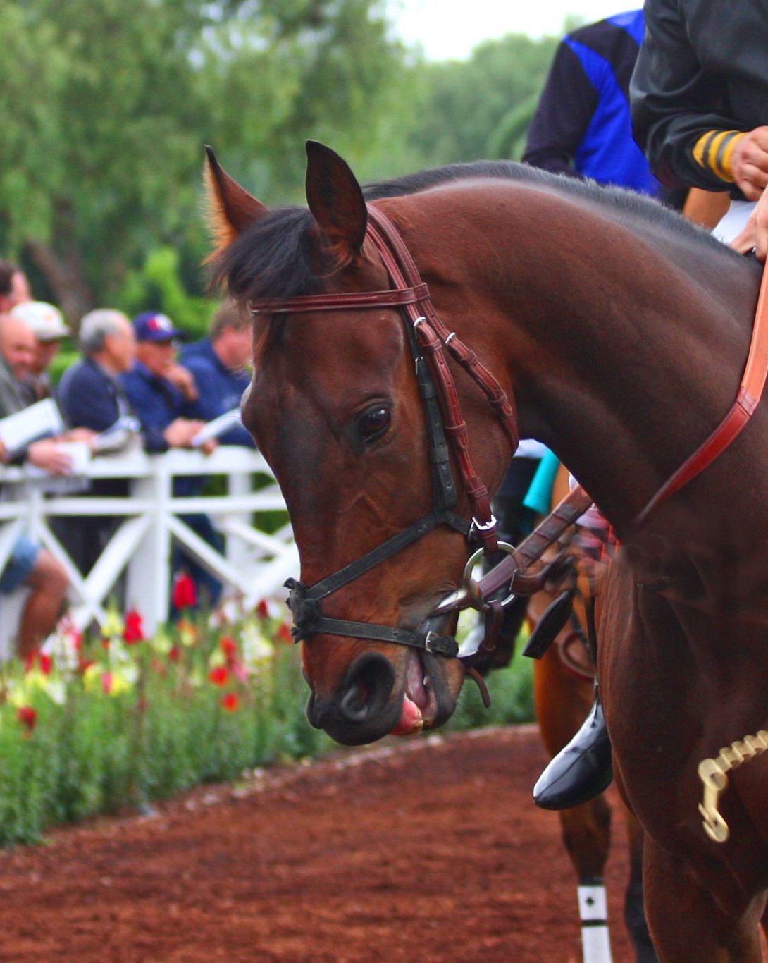 Built for Thederby